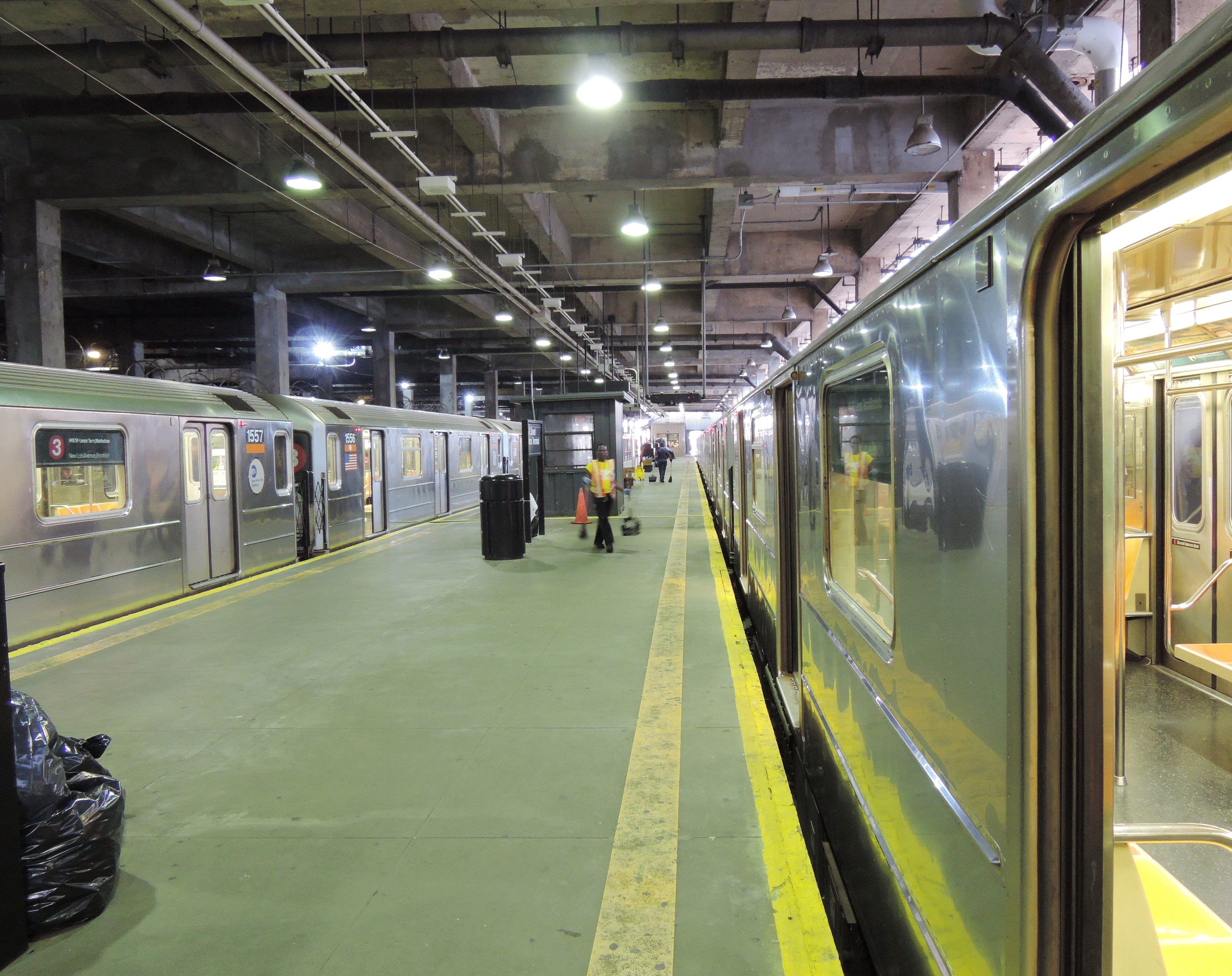 Looking east.